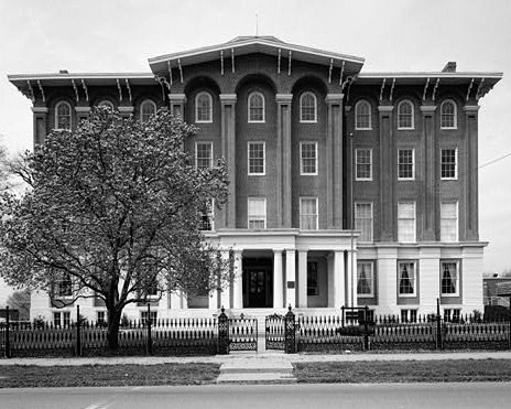 Jacobs Hall, Kentucky School for the Deaf, South Third Street, Danville (Boyle County, Kentucky)